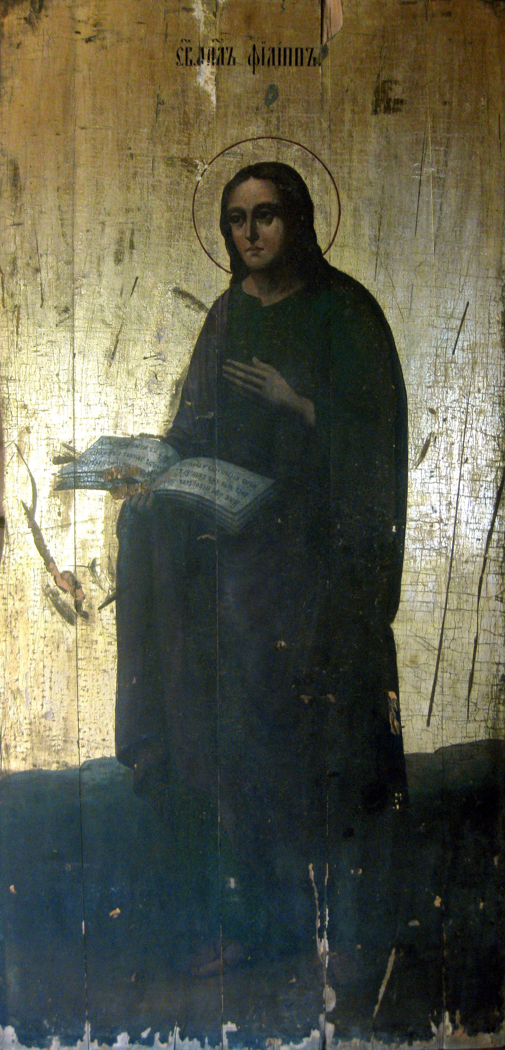 Philip the Apostle. The text (in Old Church Slavonic) in the book is: "15 Whosoever shall confess that Jesus is the Son of God, God dwelleth in him, and he in God. 16 And we have known and believed the love that God hath to us. God is love..." (First Epistle of John). Church of the Dormition of the Theotokos (1774) at Kondopoga.